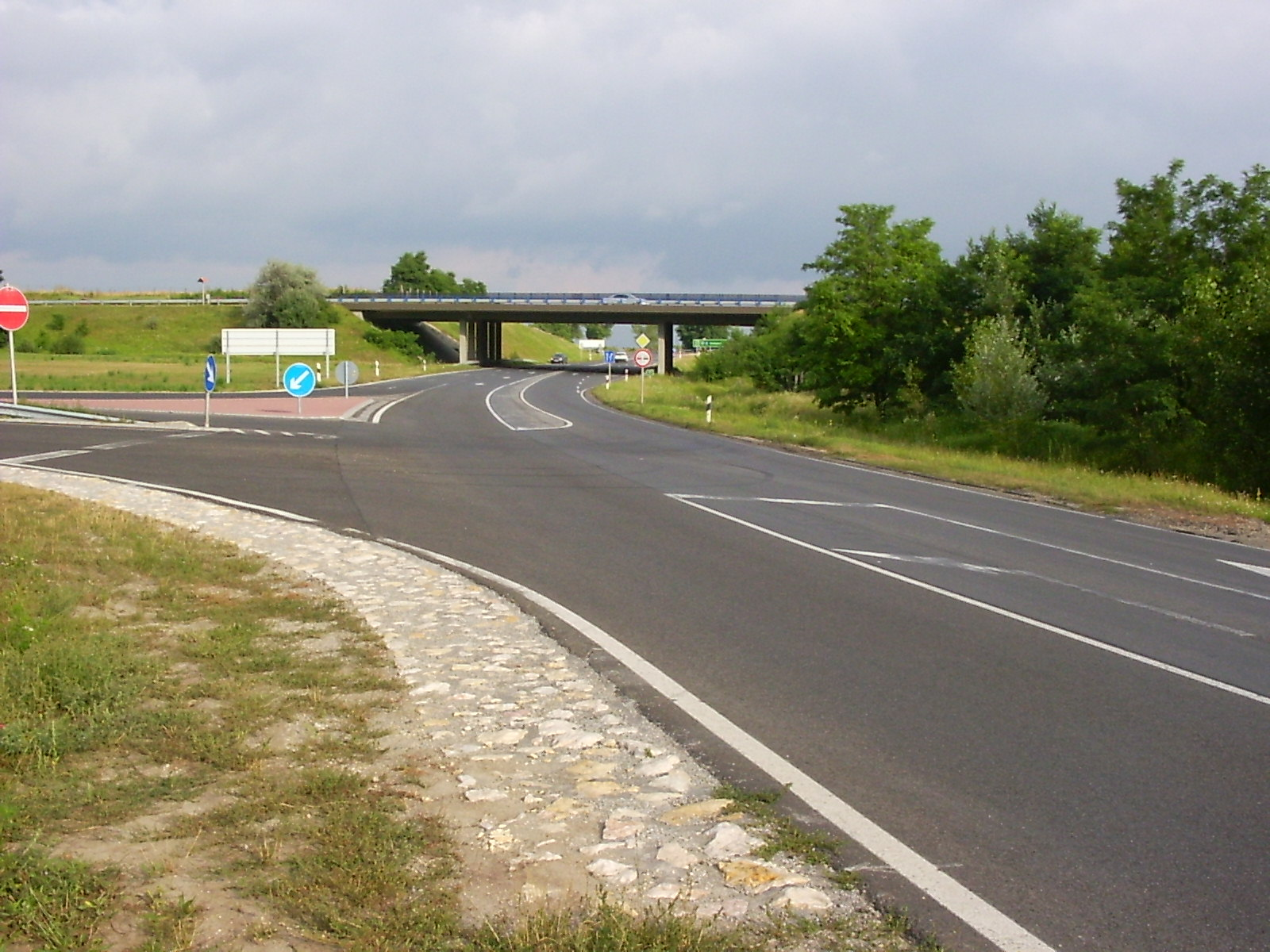 Töltéstava, crossing of M1 motorway and national road 81.